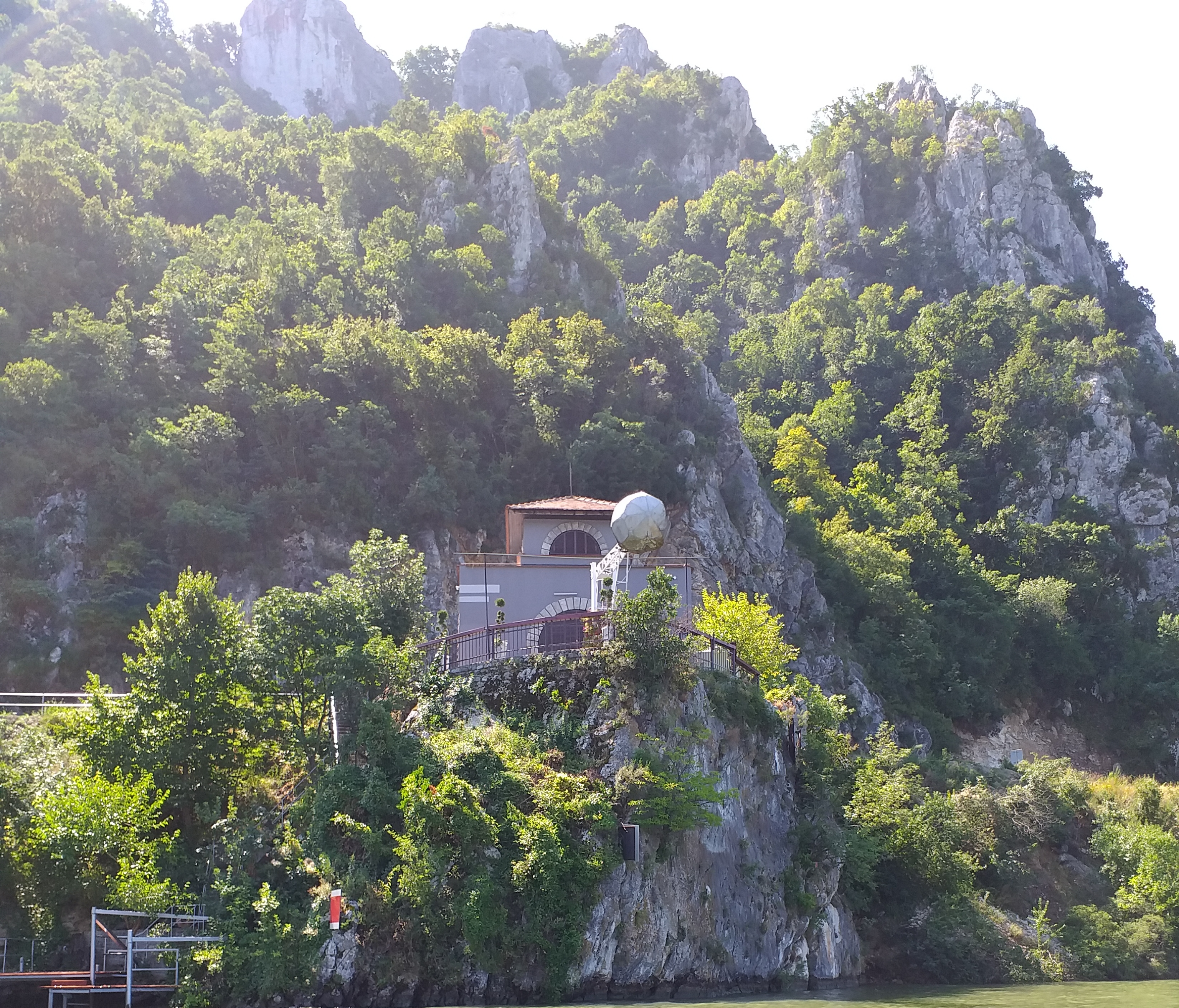 Balon stanica ,,Varnica" u Đerdapskoj klisuri koja je nekada služila za regulisanje vodenog saobraćaja.